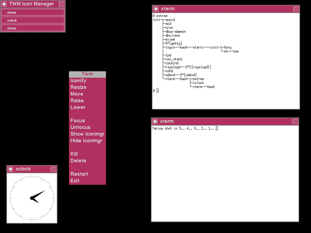 TWM (Tom's Window Manager) running with its classic maroon theme as seen in early X11 versions. Running on Debian GNU/Linux.